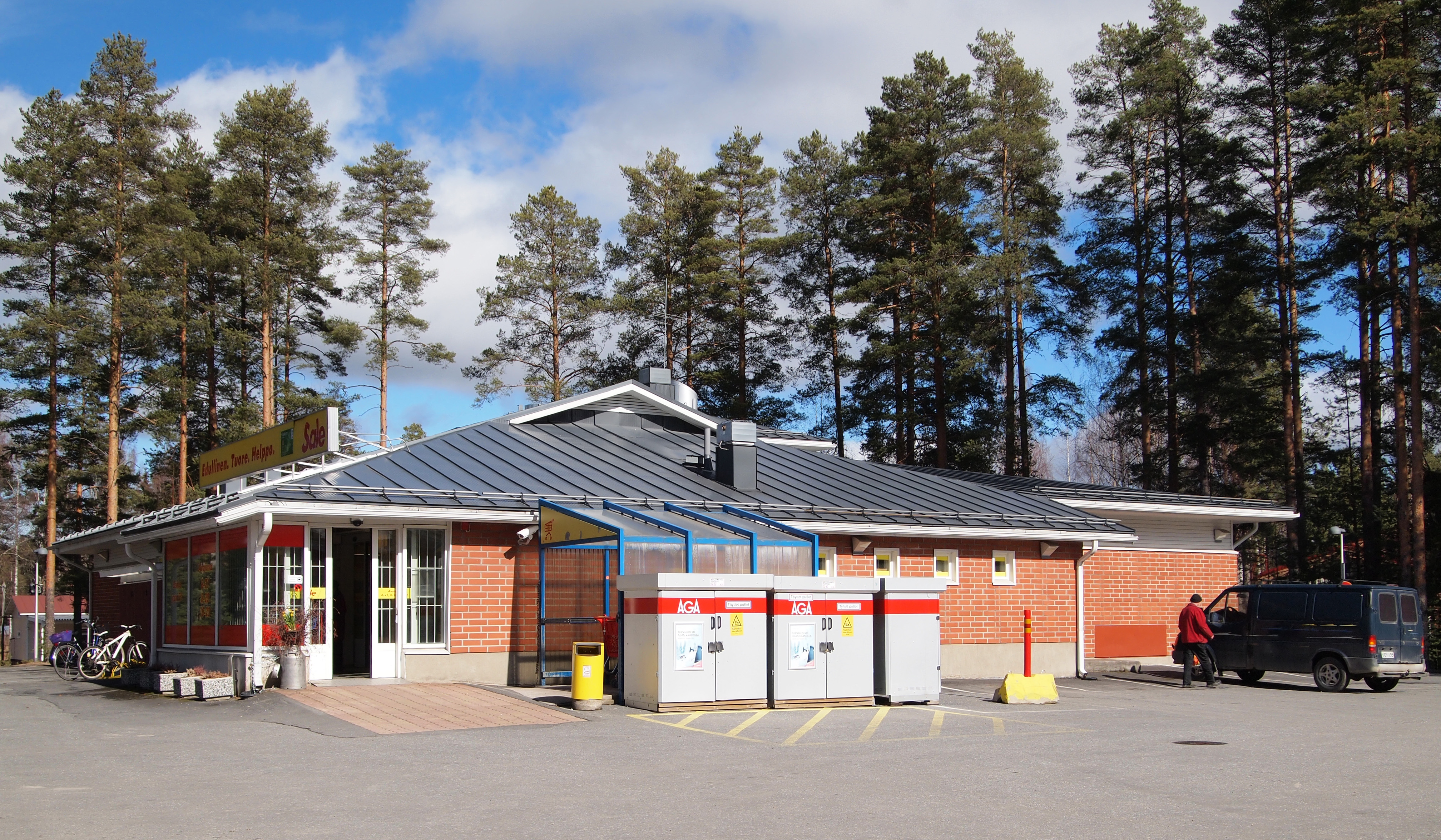 Store Sale in Toivakka. This photograph was taken with an Olympus E-PL1